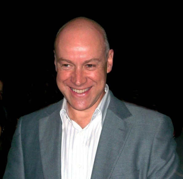 Anthony Warlow at the Last Sydney Show or Phantom of the Opera, 2008.